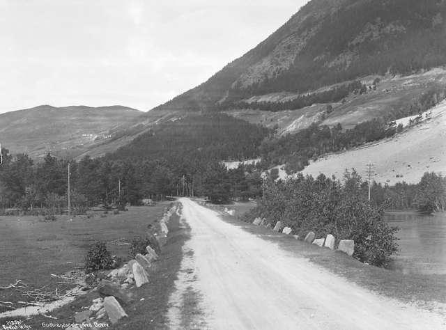 The road at Ulekleiv, ca. 4 kilometres south of Dombås.